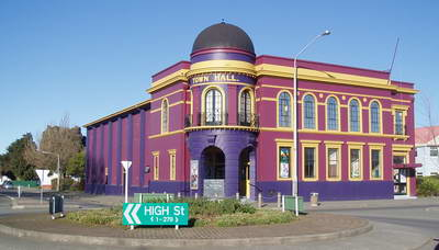 Town Hall and Regent Theatre cinema in Rangiora, New Zealand. Author is David Buckley, use with attribution. New Zealand Historic Places Trust Register number 3788.